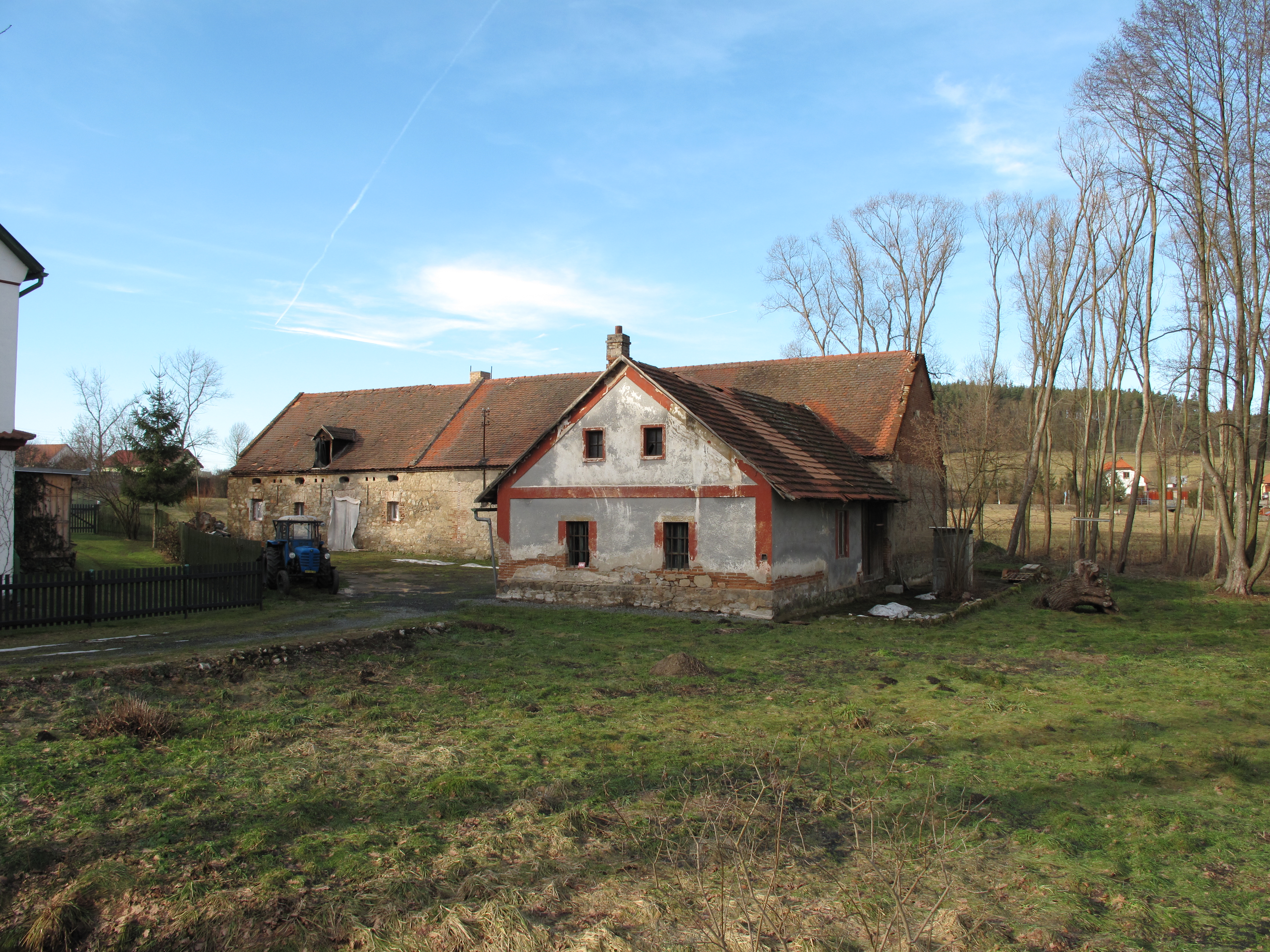 Mill in Čím village, Příbram District, Czech Republic.